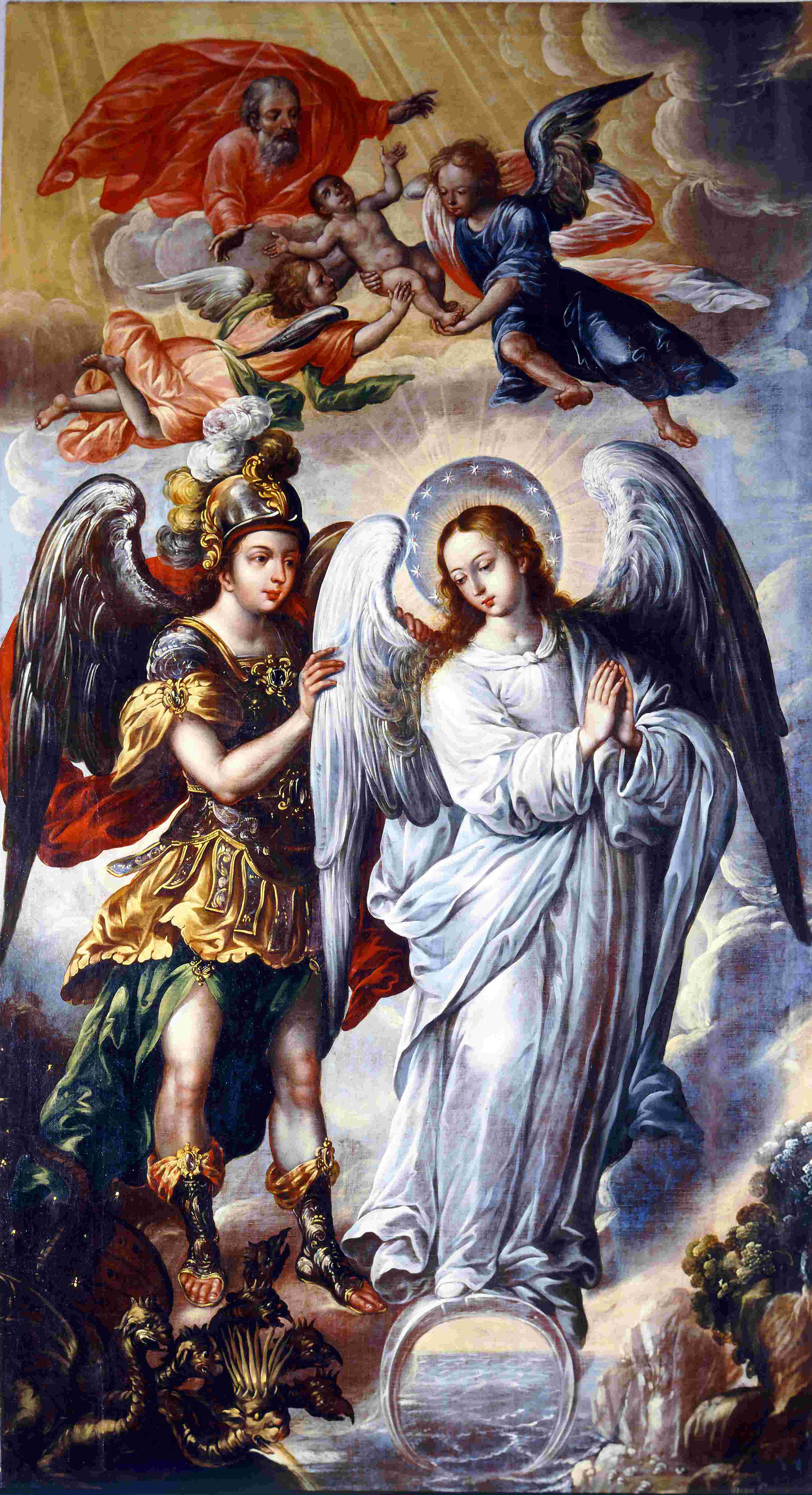 The Virgin of the Apocalypse by Juan Correa. c.1689. New Spain (Mexico). Oil on canvas.